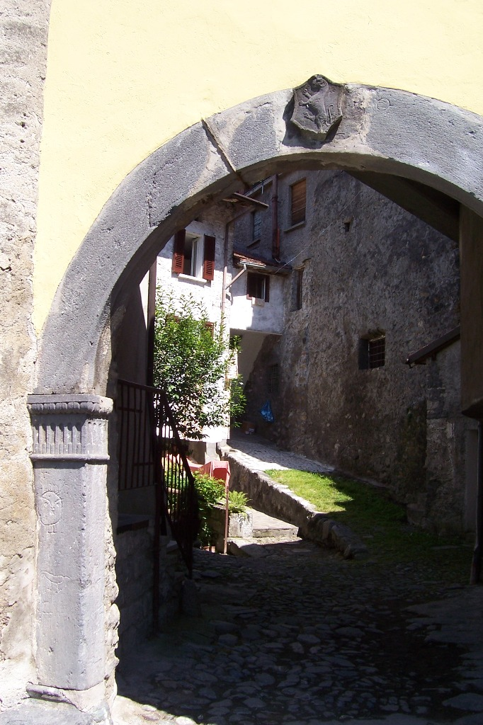 Portal. Prestine, Val Camonica